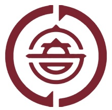 Yorii Saitama chapter